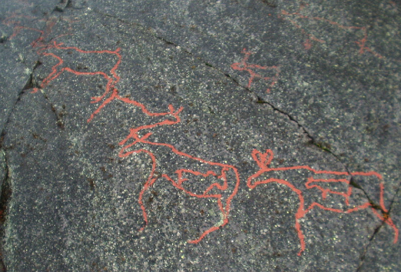 Detail from the Rock carvings at Alta: a herd of moose, with two pregnant cows in the foreground. Photo from NL Wikipedia, originally uploaded by Gebruiker:Serassot